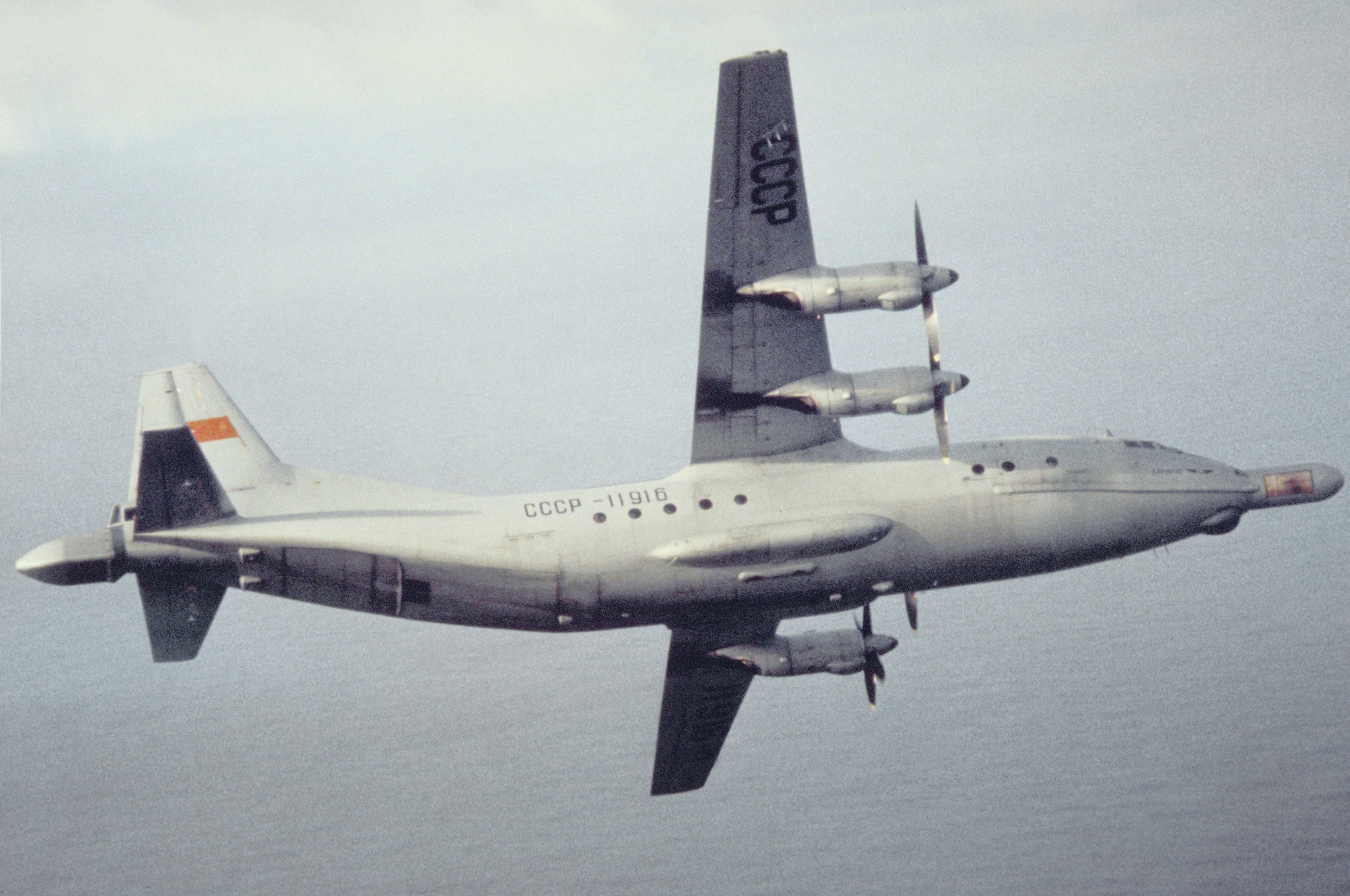 An air-to-air right side view of a Soviet An-12 Cub aircraft, modified for anti-submarine warfare with nose radome and modified tailcone for magnetic anomaly detection (MAD) equipment. Exact Date Shot Unknown (Released to Public)